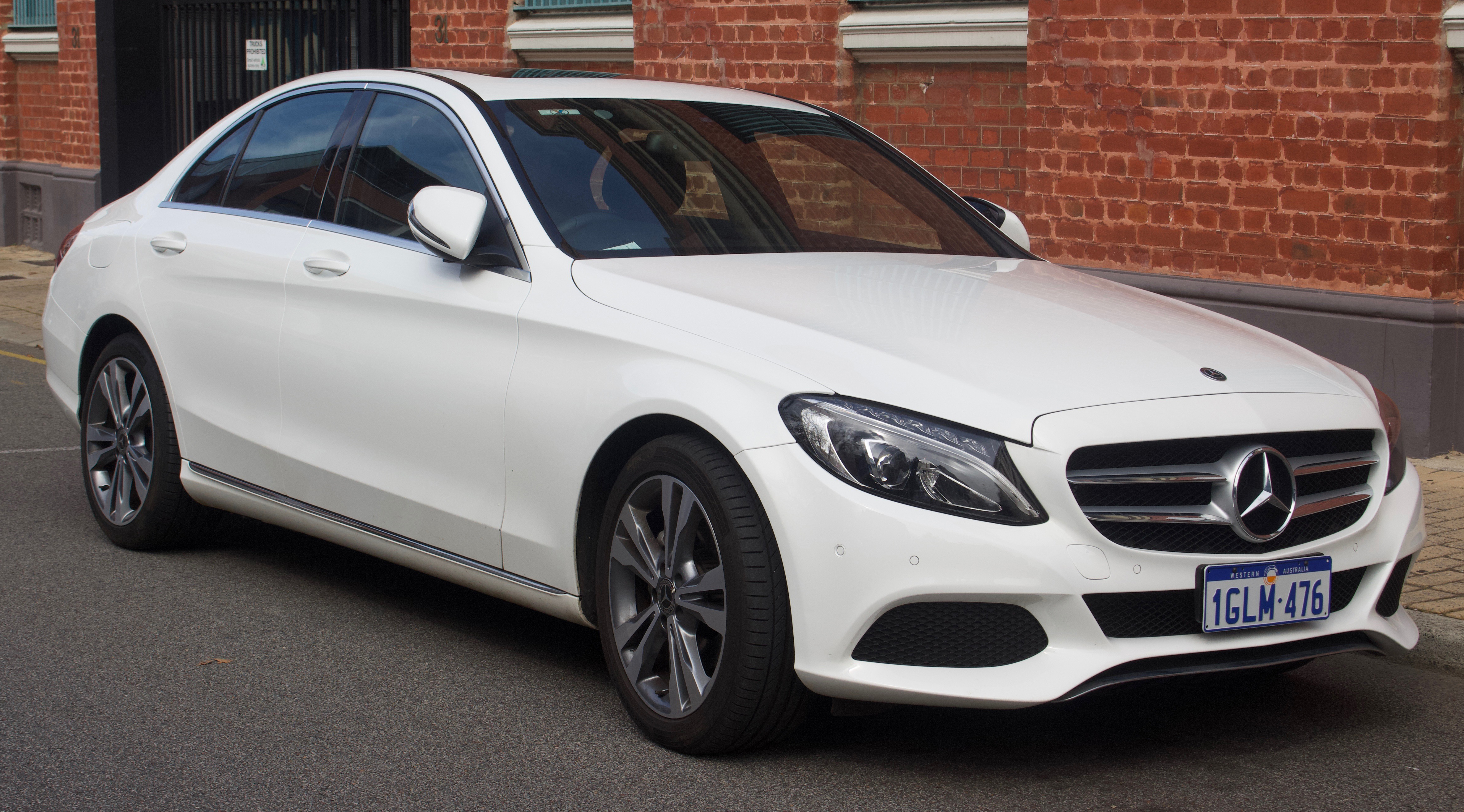 2017 Mercedes-Benz C 200 (W 205) sedan. Photographed in Fremantle, Western Australia, Australia.